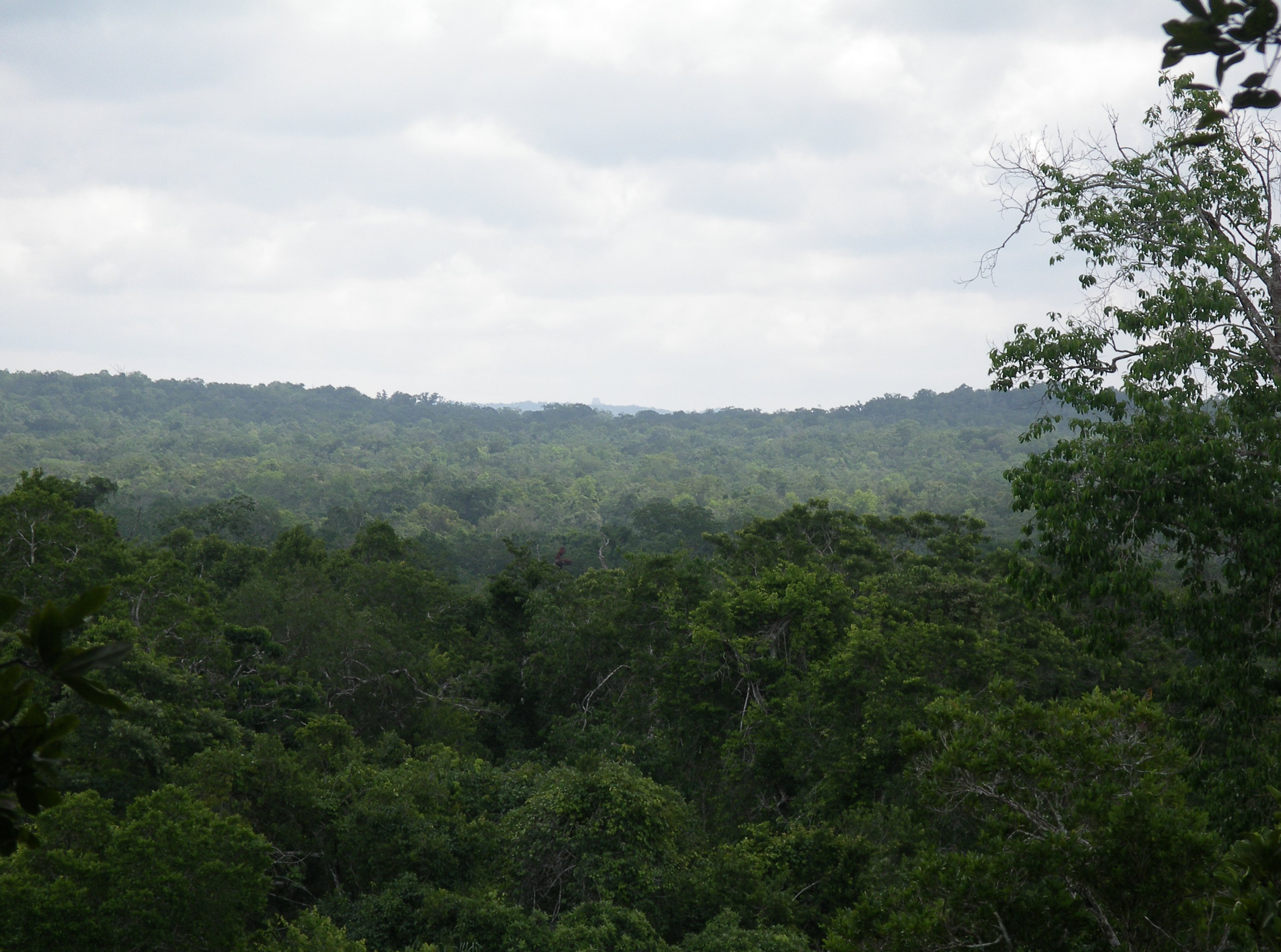 A view of Temple 4, maya site of Tikal (seen on the horizon) from temple El Diablo, maya site of El Zotz. The distance bewteen the two sites is around 32 km.